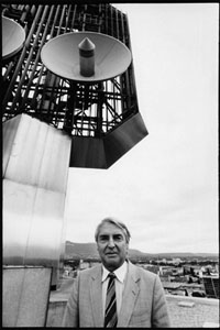 Alexandre Burger